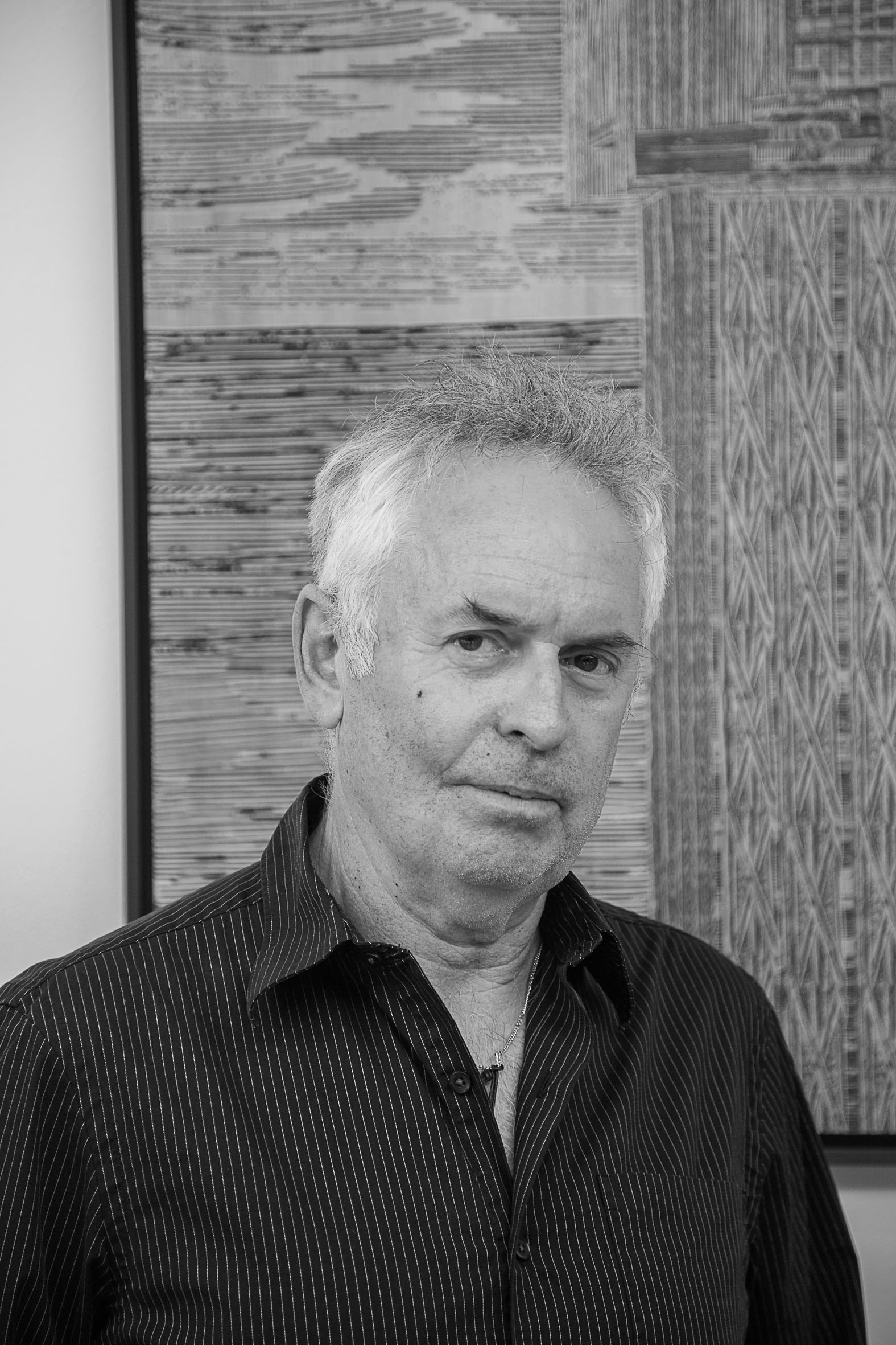 Portrait Hans Weigand Austrian Artist Foto by Amelie Zadeh